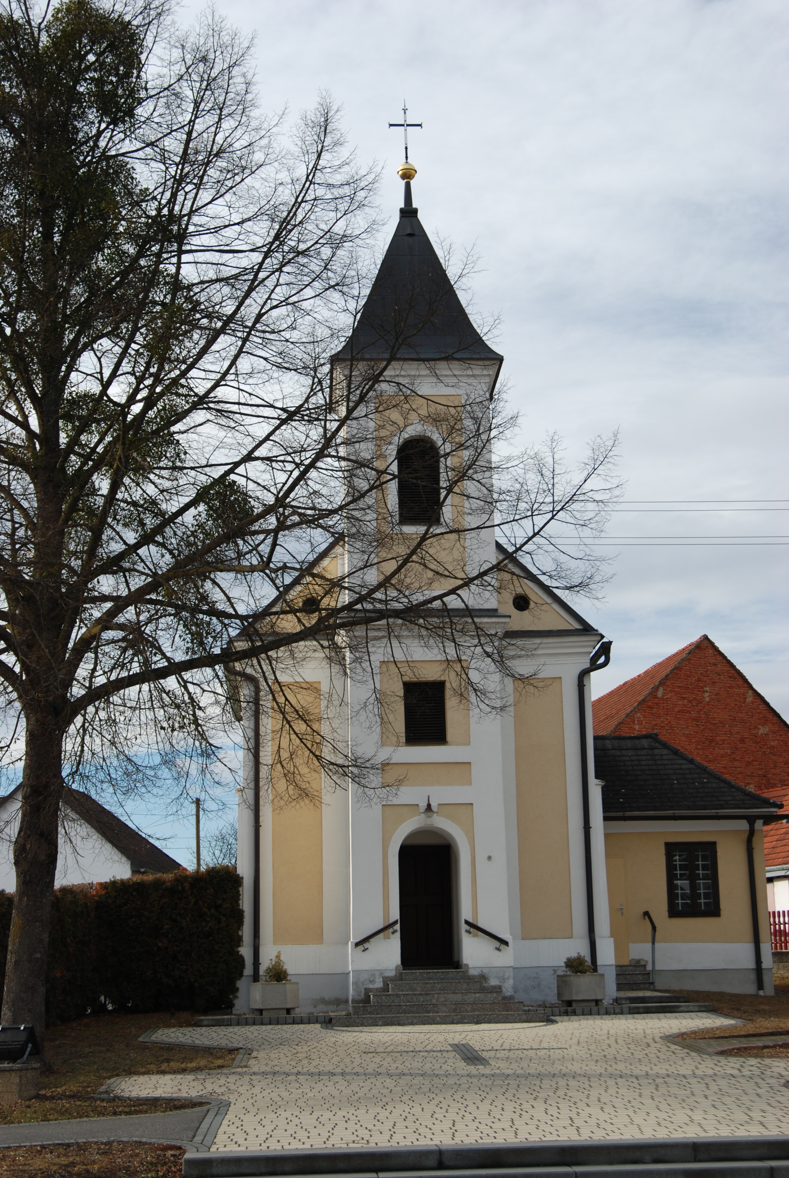 Kirche Rehgraben